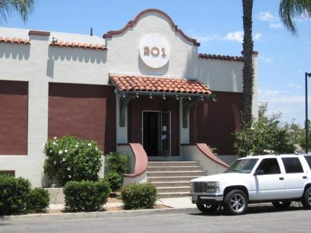 Elephant Packing House, Fullerton, California, detail of front doorway